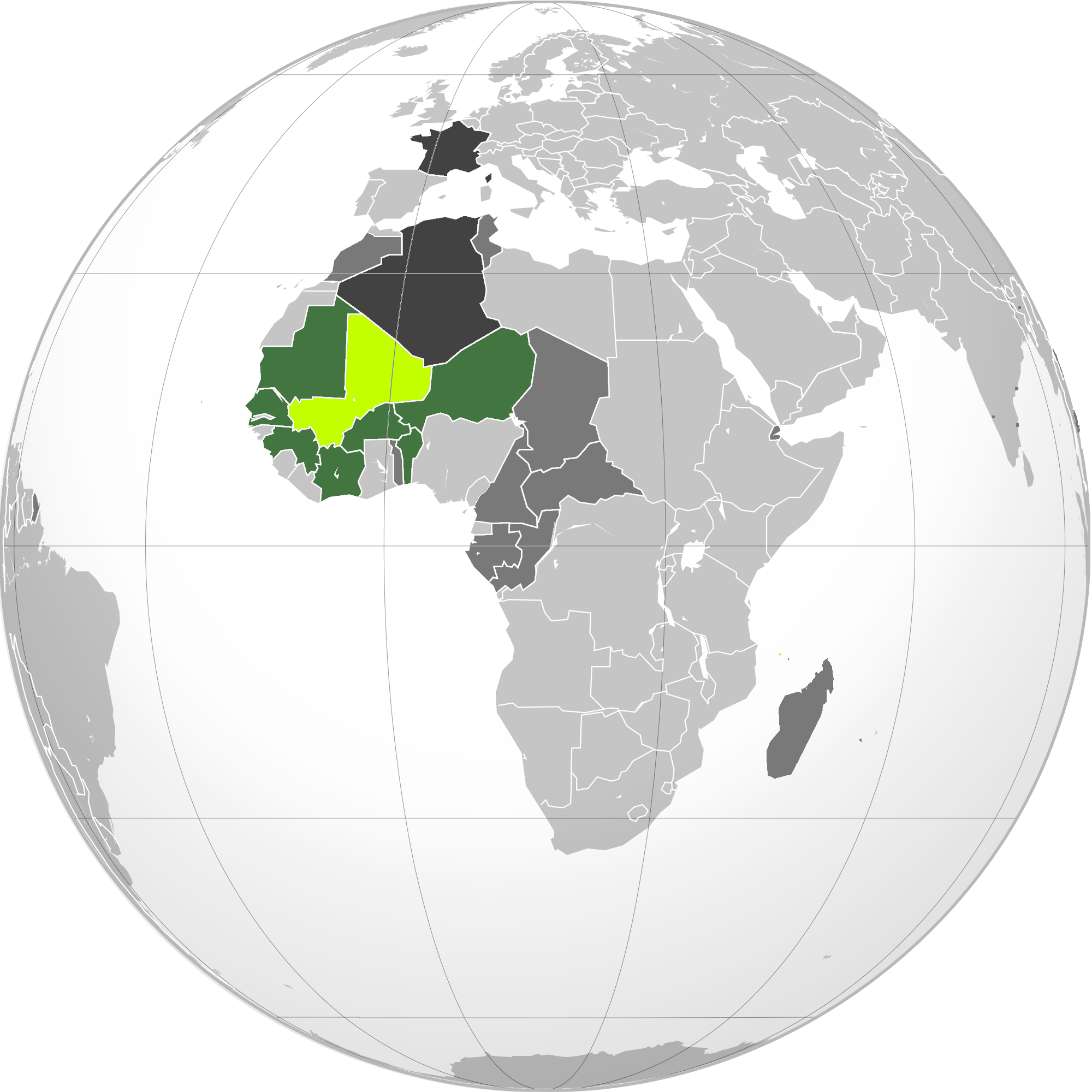 Green: French SudanLime: French West AfricaLight gray: Other French possessionsDark gray: French Republic